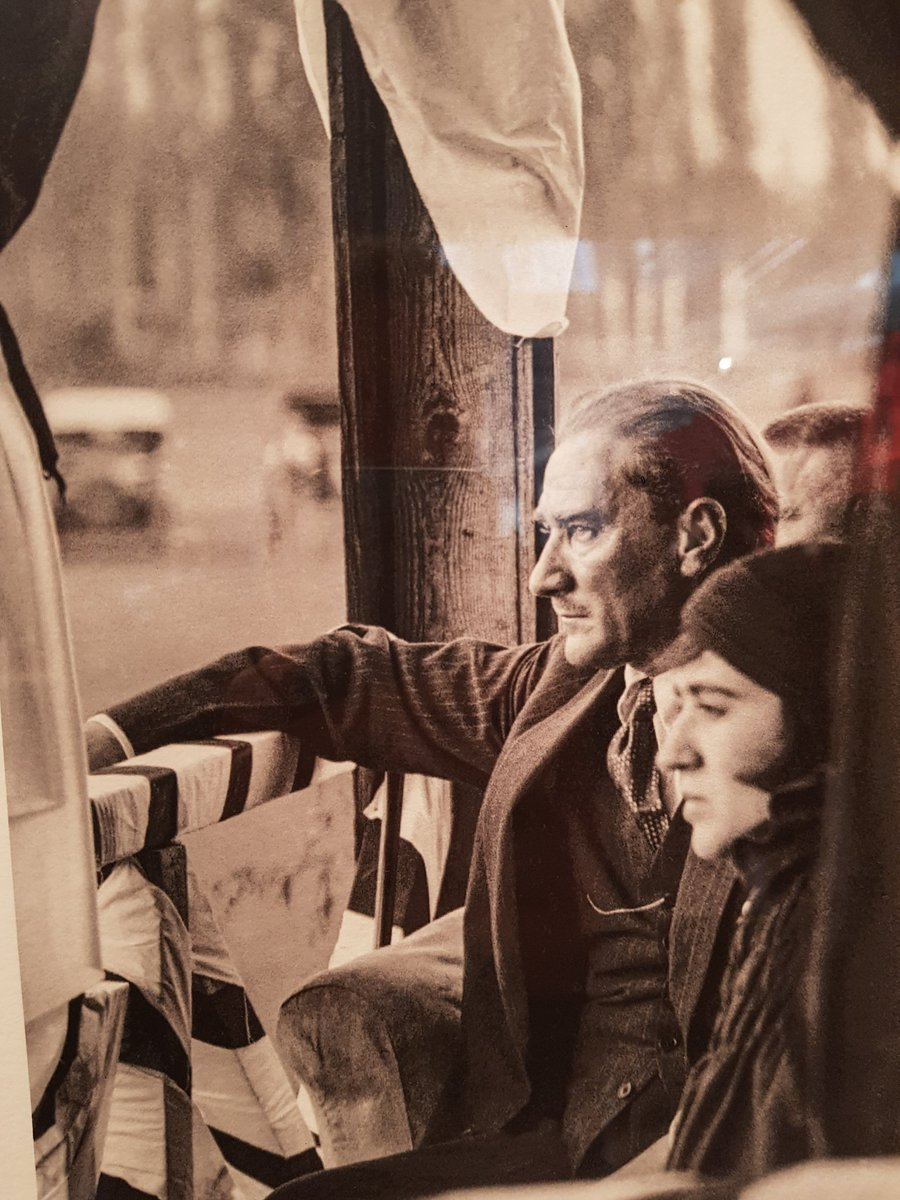 Kemal Atatürk (or alternatively written as Kamâl Atatürk, Mustafa Kemal Pasha until 1934, commonly referred to as Mustafa Kemal Atatürk; 1881 – 10 November 1938) was a Turkish field marshal, revolutionary statesman, author, and the founding father of the Republic of Turkey, serving as its first President from 1923 until his death in 1938. He undertook sweeping progressive reforms, which modernized Turkey into a secular, industrial nation. Ideologically a secularist and nationalist, his policies and theories became known as Kemalism. Due to his military and political accomplishments, Atatürk is regarded as one of the most important political leaders of the 20th century.